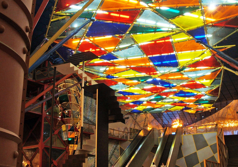 Alameda Metro Station(Red Line), Lisbon